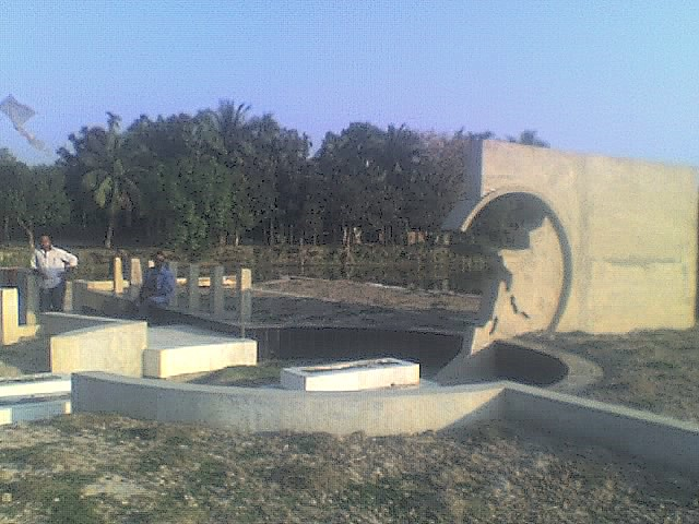 Image of the mausoleum of Bir Sreshtho Mostafa Kamal, a war hero of Bangladesh